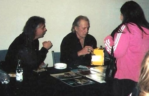 David Carradine signing autographs during the Scandinavian Sci-Fi, Game & Film Convention at Malmömässan in May 2005.